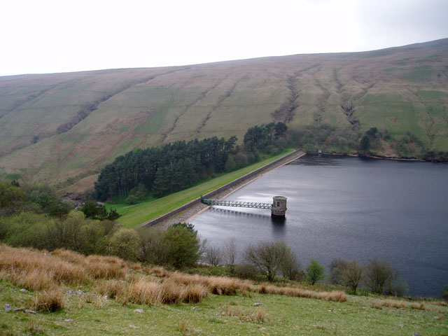 Ystradfellte Reservoir. Looking down on the dam from the eastern slopes.